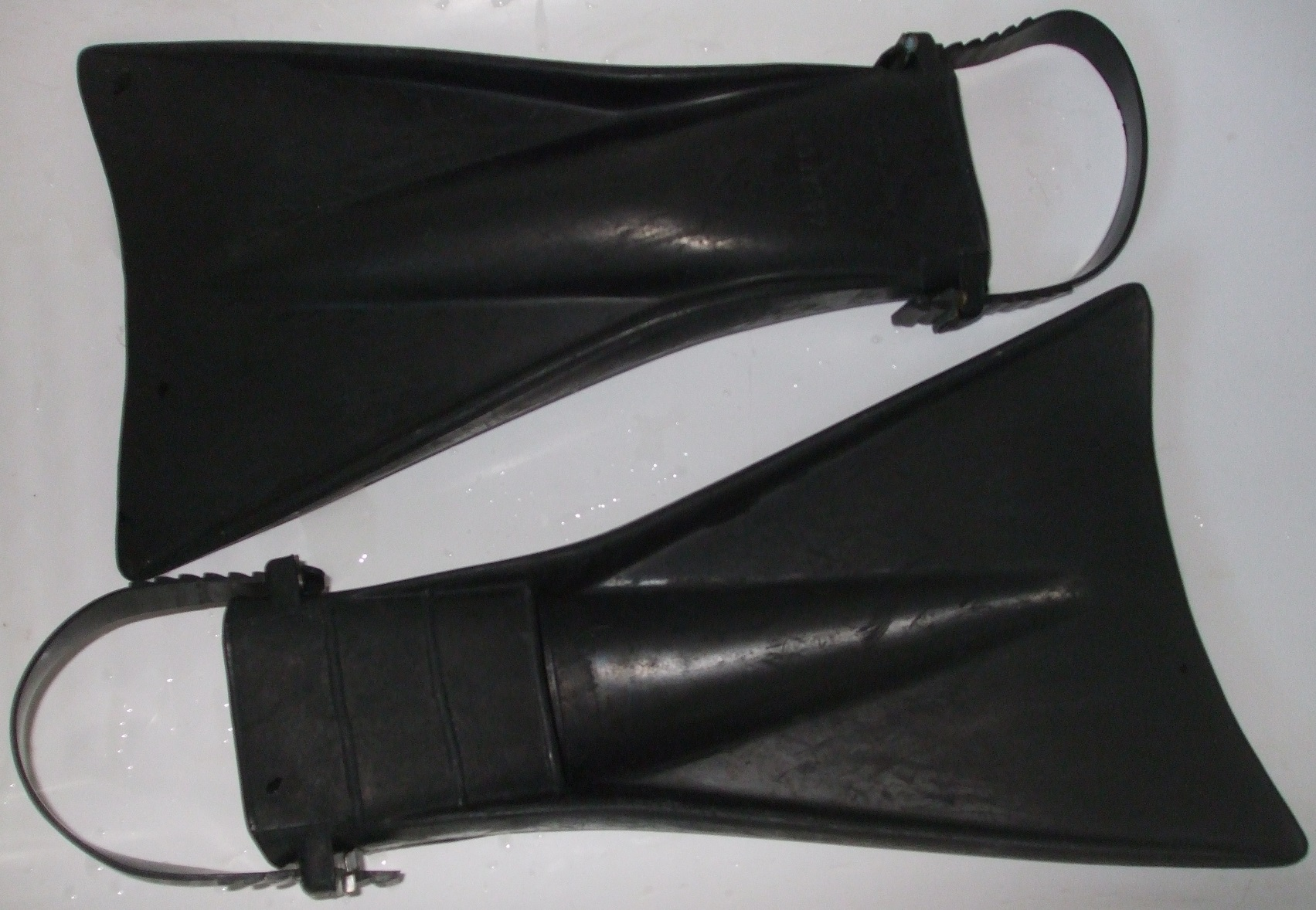 Swim fins made between 1956 and 1962 by Dunlop Rubber Company for Aquafort range of underwater swimming equipment. According to Lillywhites' underwater catalogue of 1957, this product was "scientifically designed for maximum efficiency. Made by the original Frogmen suppliers with a two-way curved blade for power and open-ended semi-shoe gives comfort for all sizes 7-12. Fully adjustable heel strap and made with soft rubber to avoid strain on ankle."